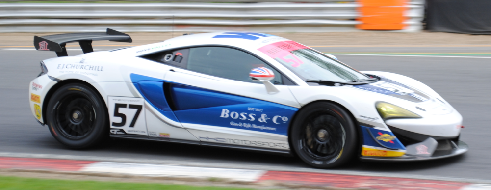 The second-place drivers in the GT4 championship standings, Dean MacDonald and Callum Pointon. They qualified first in class and finished fourteenth and second in class in round eight at Brands Hatch.